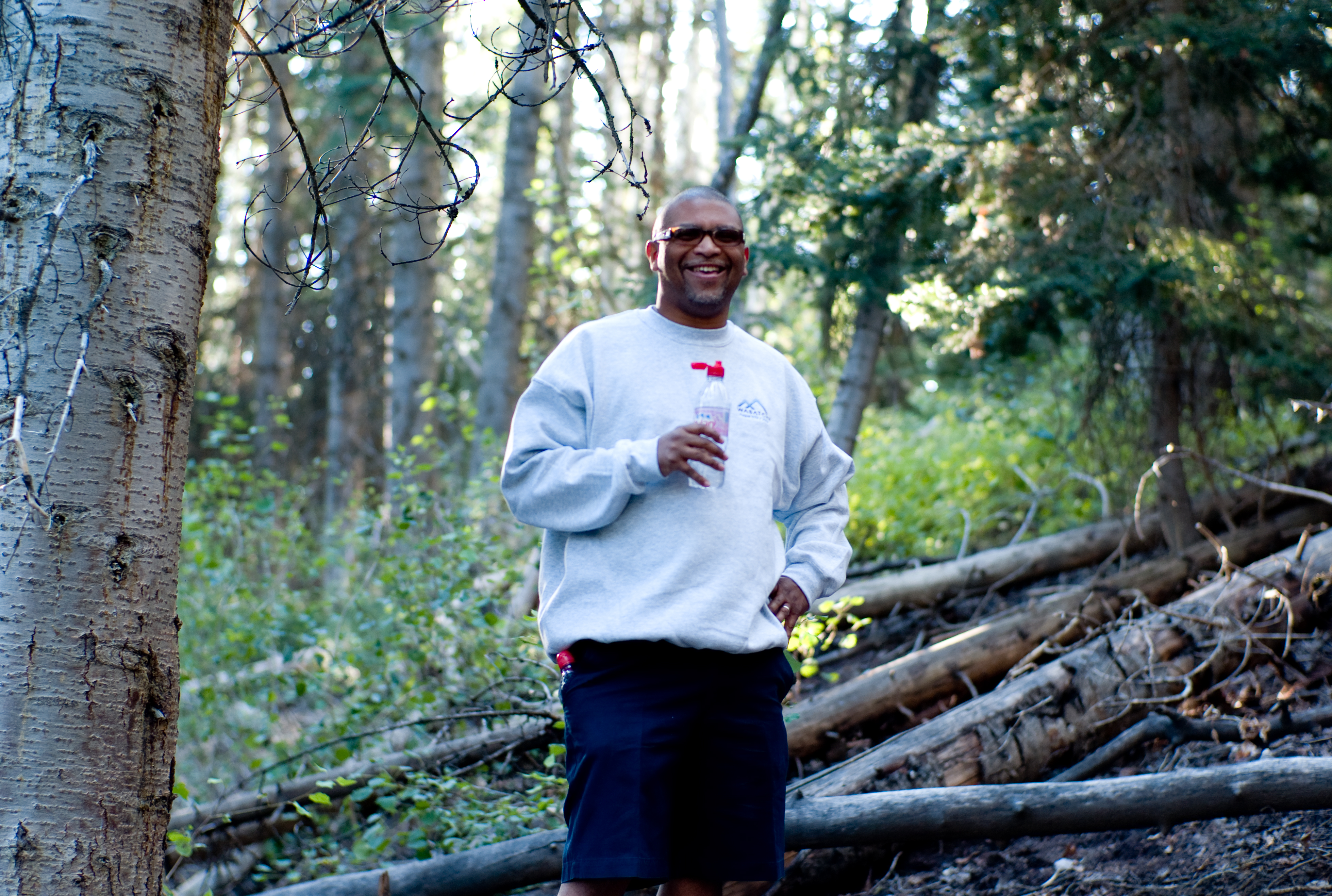 Reggie Hudlin